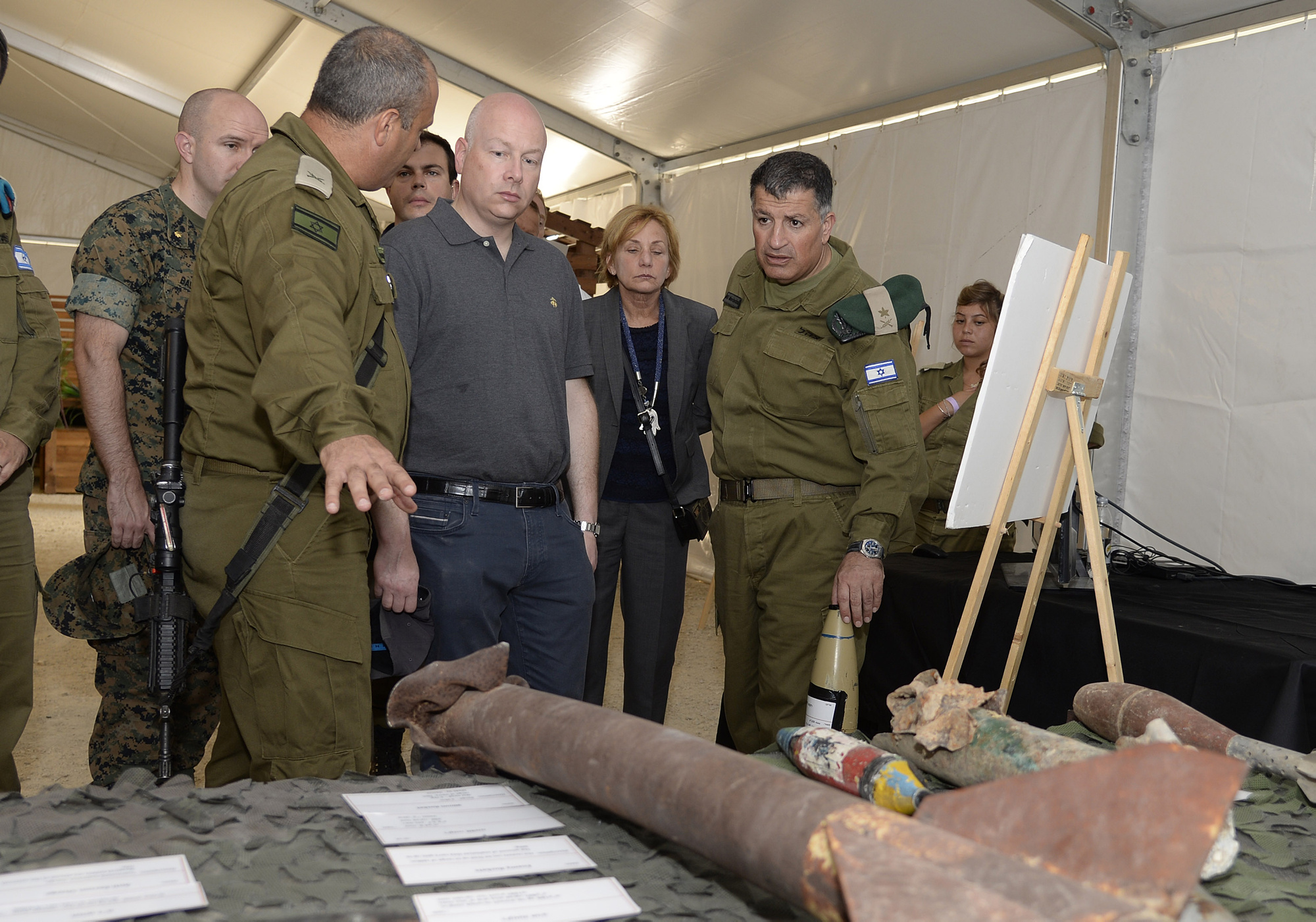 President Trump's Special Representative for International Negotiations Jason Greenblatt toured the Gaza periphery area, visited Ziv Hospital in Safed, and the Old City of Jerusalem, August 29-30, 2017.